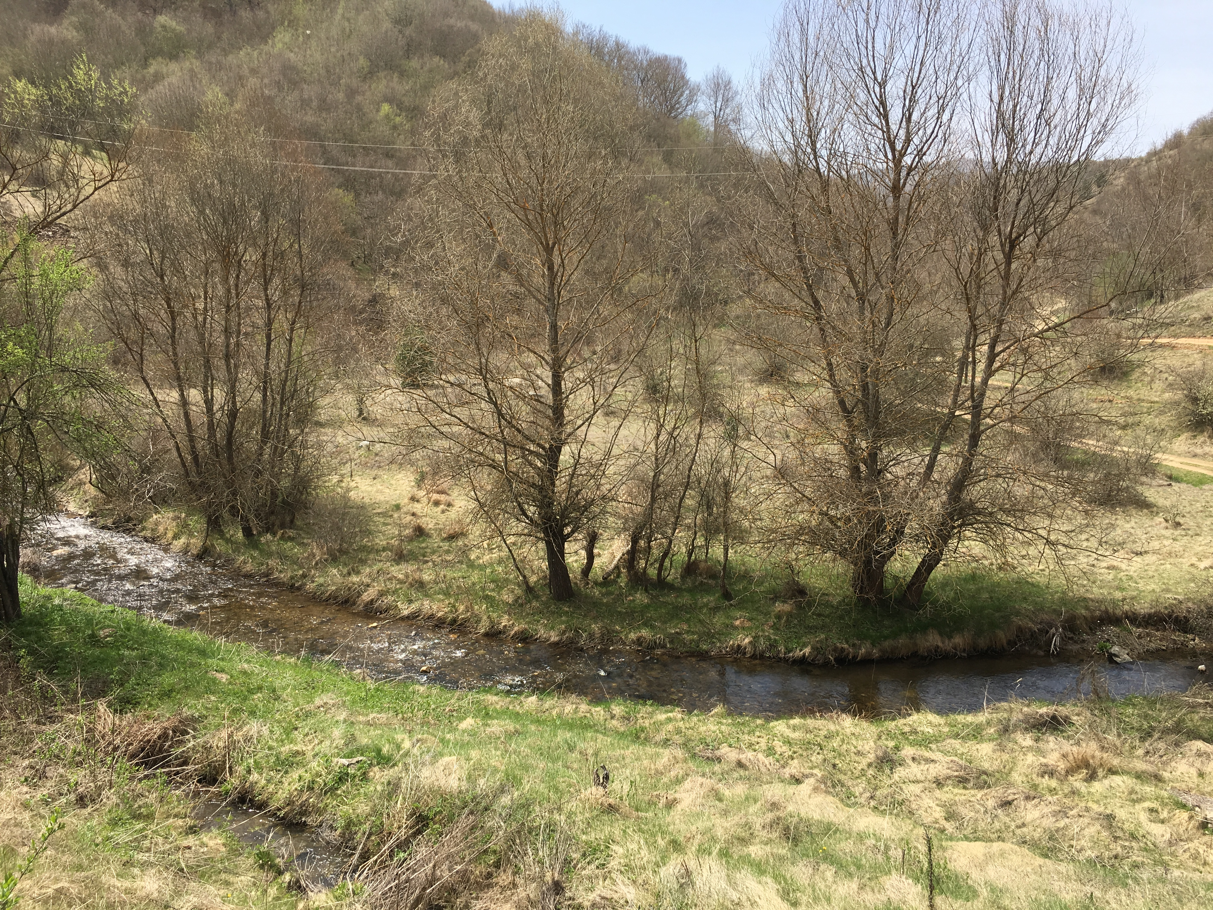 Dobrovnica River near the eponymous village